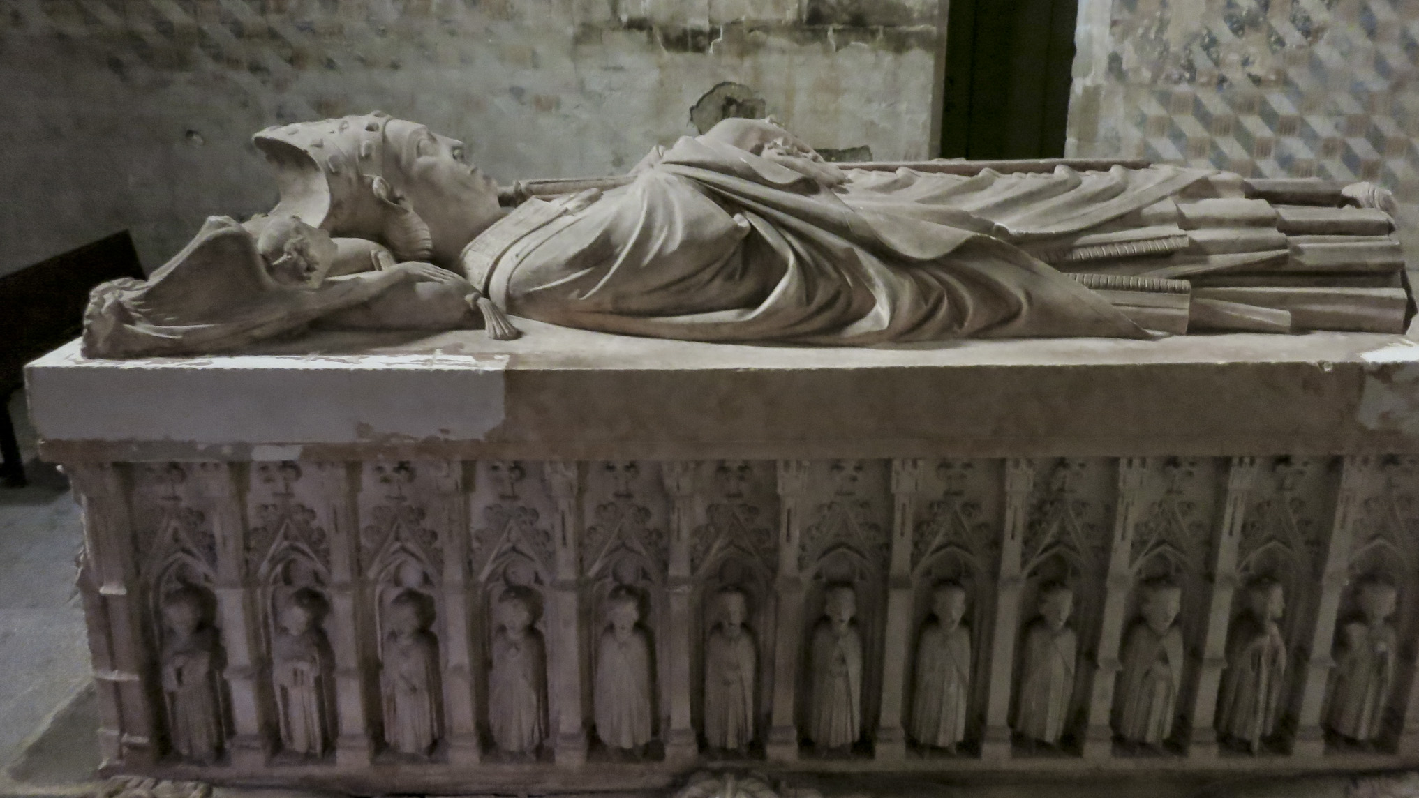 Mestre Pero e Telo Garcia, Túmulo Gonçalo Pereira, sec. XIV